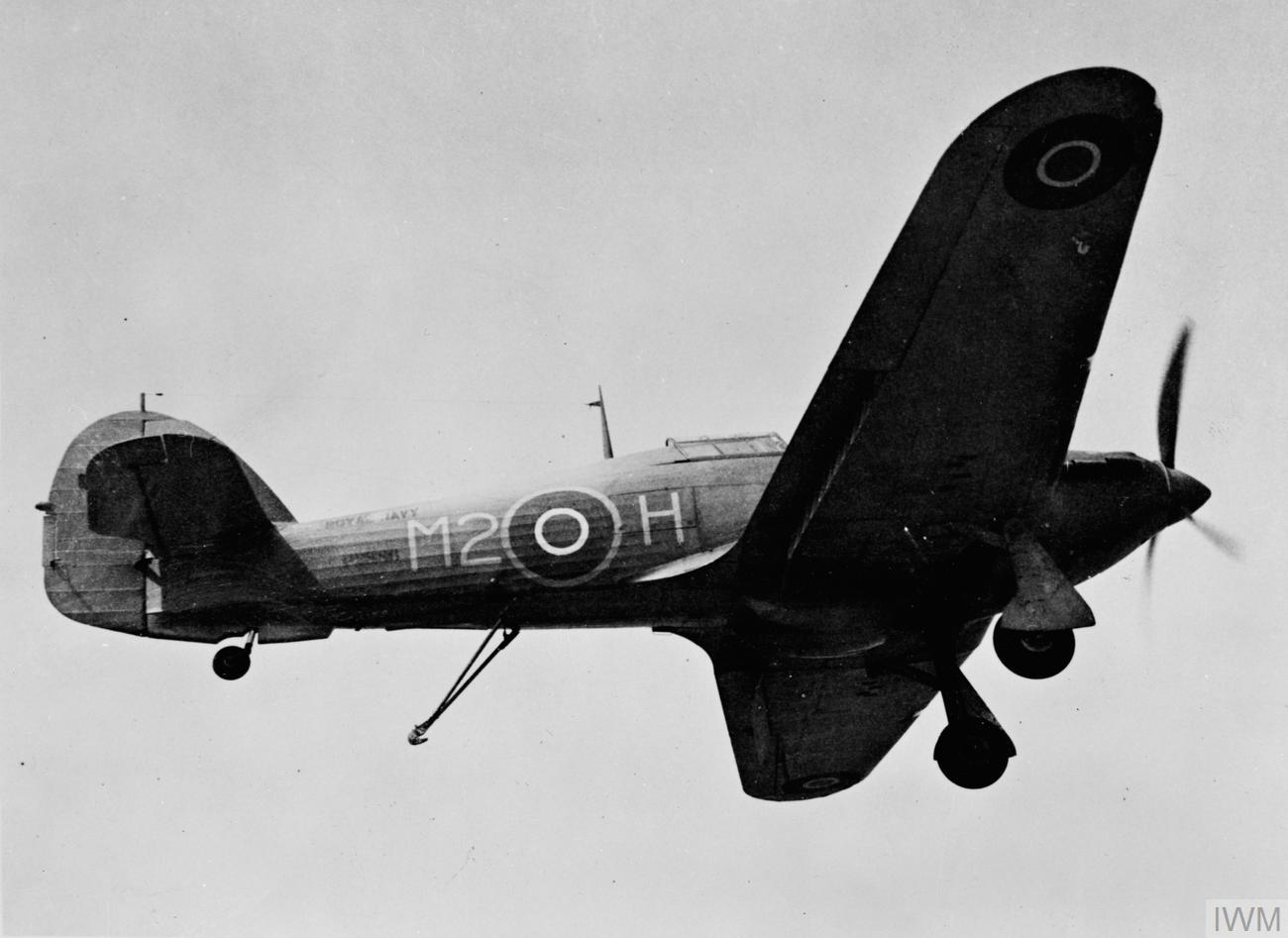 A Royal Navy Hawker Sea Hurricane from 768 Naval Air Squadron about to land on HMS Argus (I49).